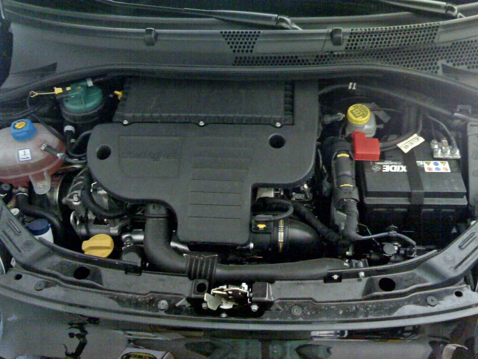 1.3 MJT diesel engine Fiat500